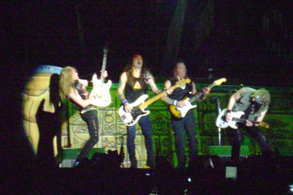 Janick Gers, Steve Harris, Dave Murray, and Adrian Smith, during a presentation with Iron Maiden in Bogota on 2009. Unknown